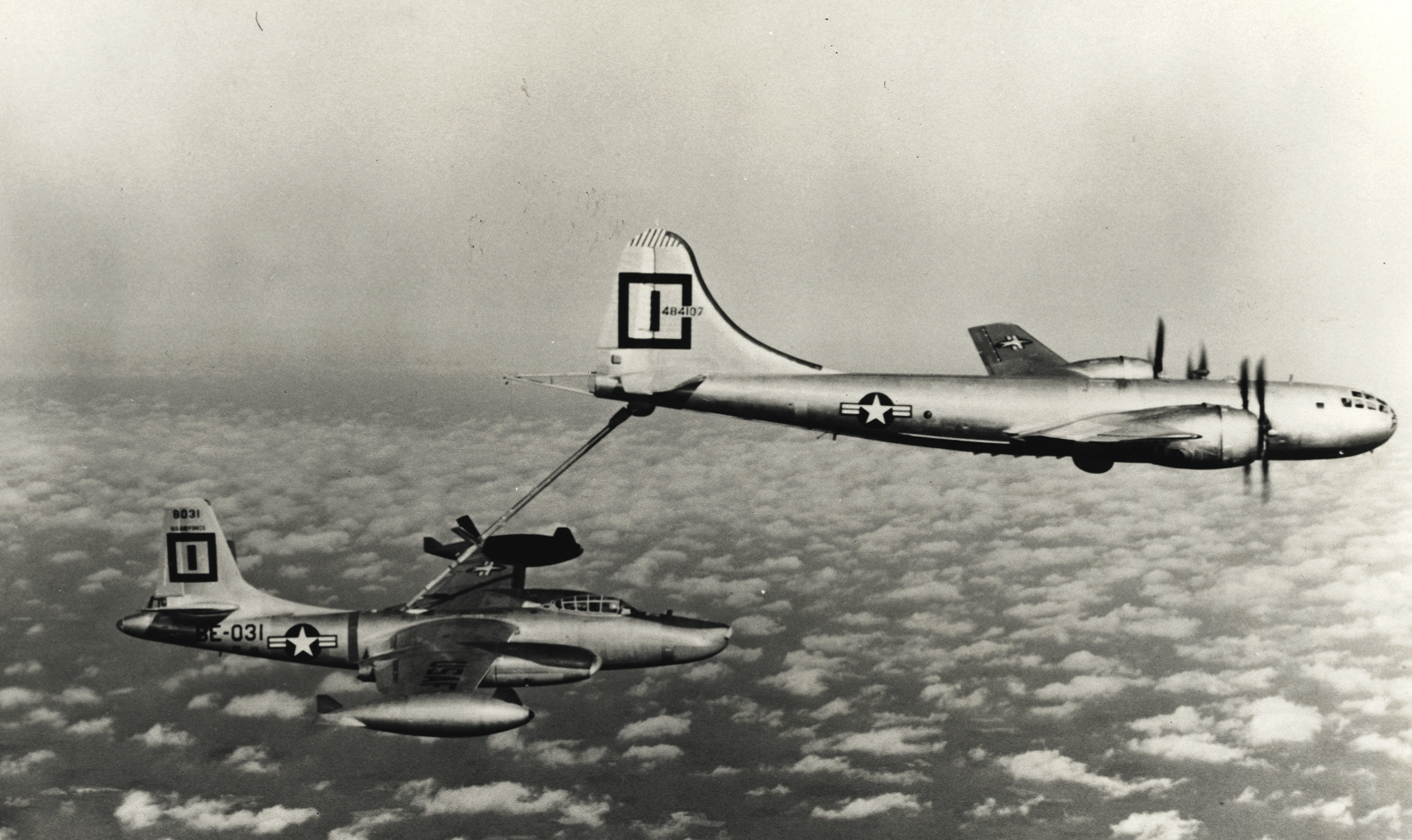 A U.S. Air Force North American RB-45C Tornado (s/n 48-031) of the 323rd Strategic Reconnaisance Squadron, 91st Strategic Reconnaisance Wing at Barksdale Air Force Base, Louisiana (USA), is being refueled by a 91st Air Refueling Squadron Boeing KB-29P Superfortress (Bell-Atlanta built B-29B-65-BA, s/n 44-84107).